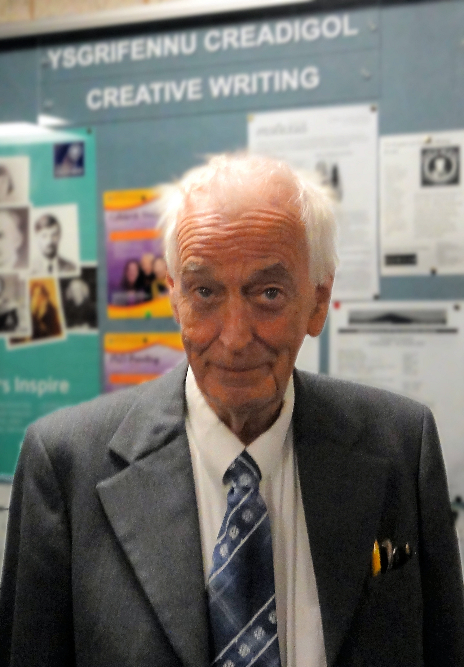 John Davies' publications include Cardiff and the Marquesses of Bute, Hanes Cymru, A History of Wales, Broadcasting and the BBC in Wales, The Making of Wales, The Celts and Cardiff: a Pocket Guide. He is co-editor of The Encyclopaedia of Wales/Gwyddoniadur Cymru.